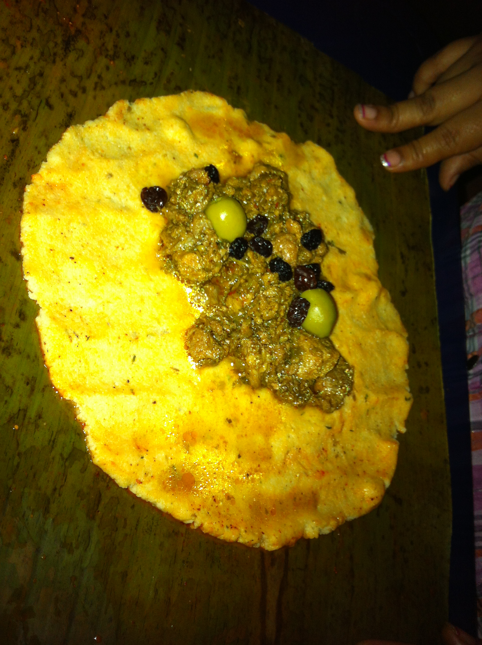 Venezuela, Hallaca